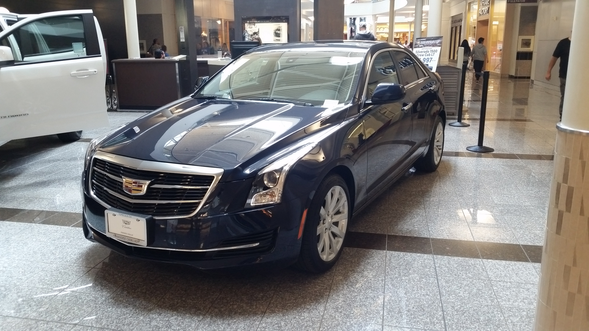 Cadillac ATS 2017 Side Front.